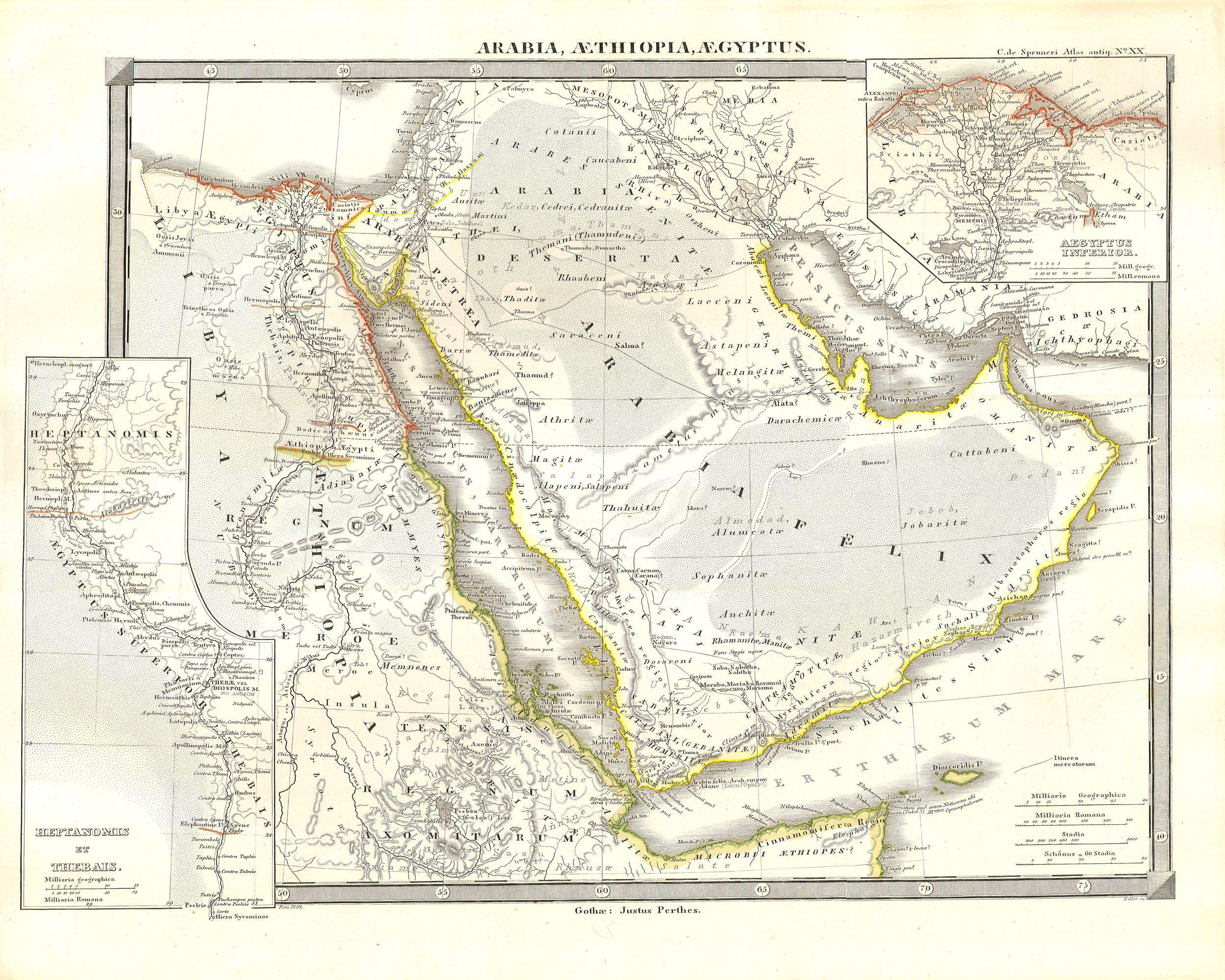 This fine hand colored map is a steel plate lithograph depicting Arabia (Arabian Peninsula), Egypt and Ethiopia or Abyssinia in ancient times. Includes the ancient, almost mythical, kingdom of Axum in northern Ethiopia – birthplace of the Queen of Sheba and supposed resting place of the Arc of the Covenant to this very day! It was published in 1855 by the legendary German cartographer Justus Perthes. Issued as part of the “Spruneri Atlas Antiquarie”.